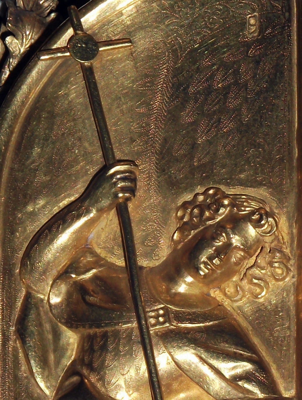 Holy Thorn Reliquary, detail of St Michael